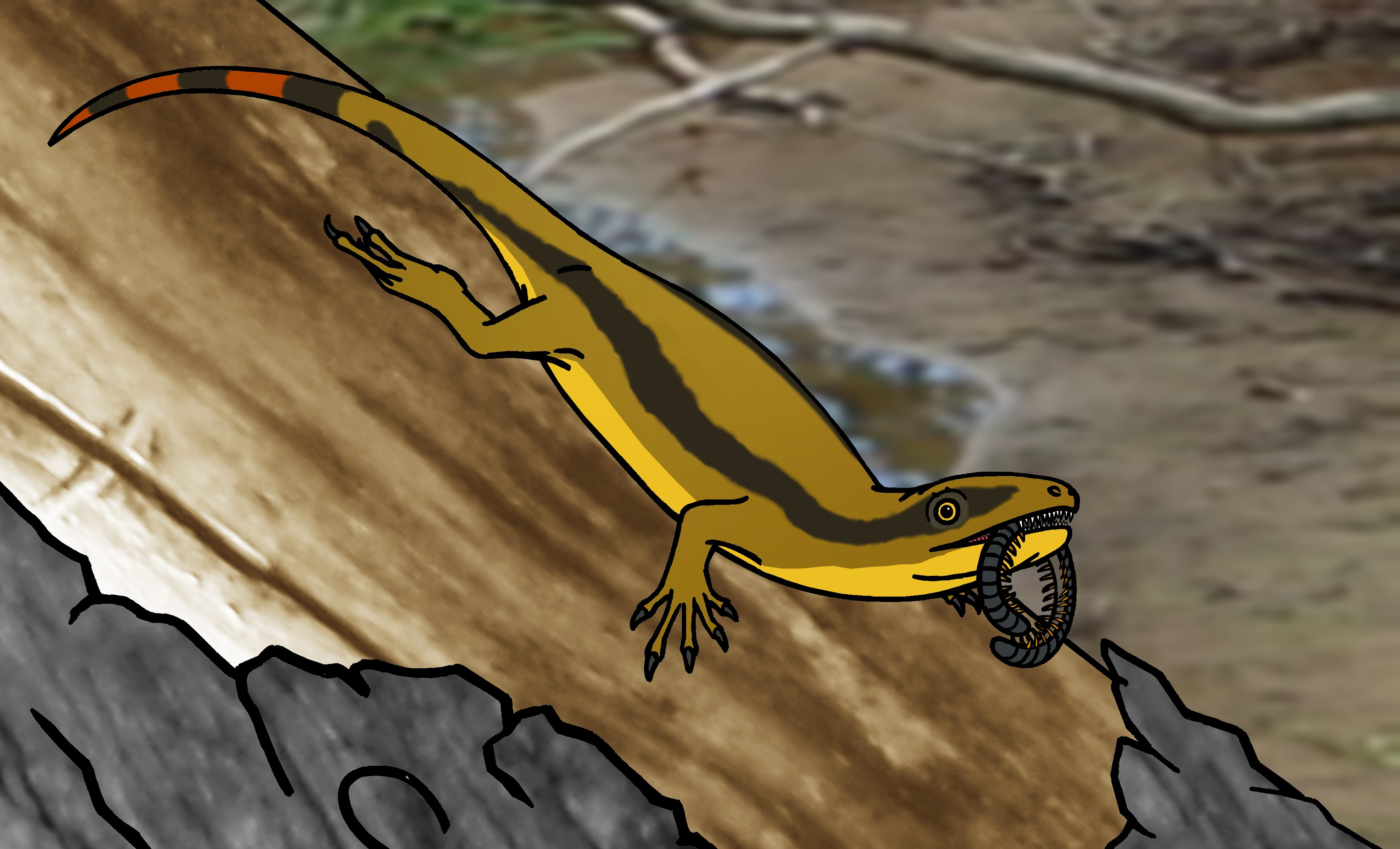 Paleothyris acadiana, belived to be one of the oldest reptiles ( Sauropsida ). Paleothyris was up to 25 - 30 cm. ( 10 inch ), with a skull measuring 3 cm. ( 1, 5 inch ). This version is made with a background ( I also made one without background ).